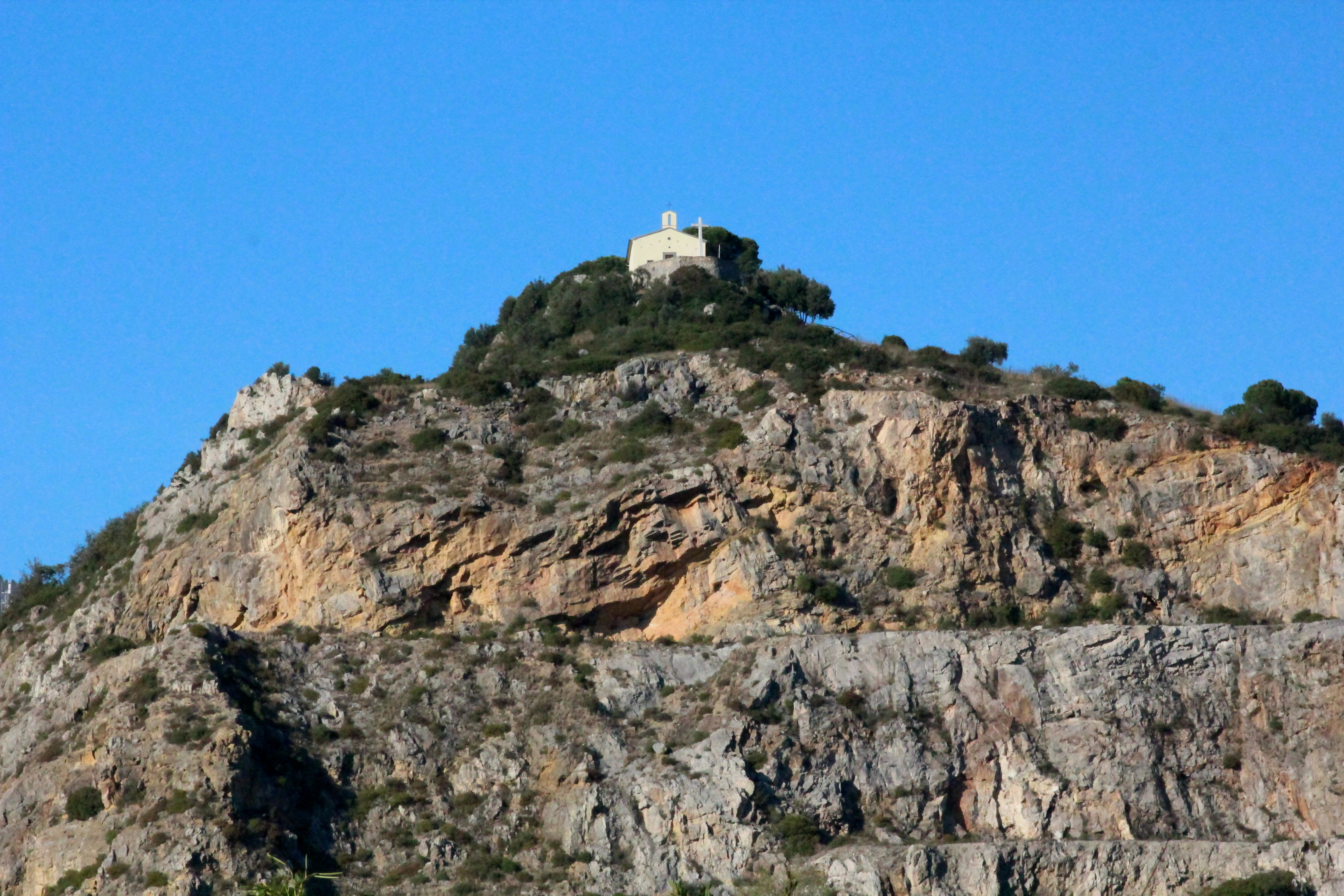 Church/Chapel Santa Croce in Castellare (also Chiesa del Castellare or Monte Castellare), near/above San Giovanni alla Vena, hamlet of Vicopisano, Province of Pisa, Tuscany, Italy.